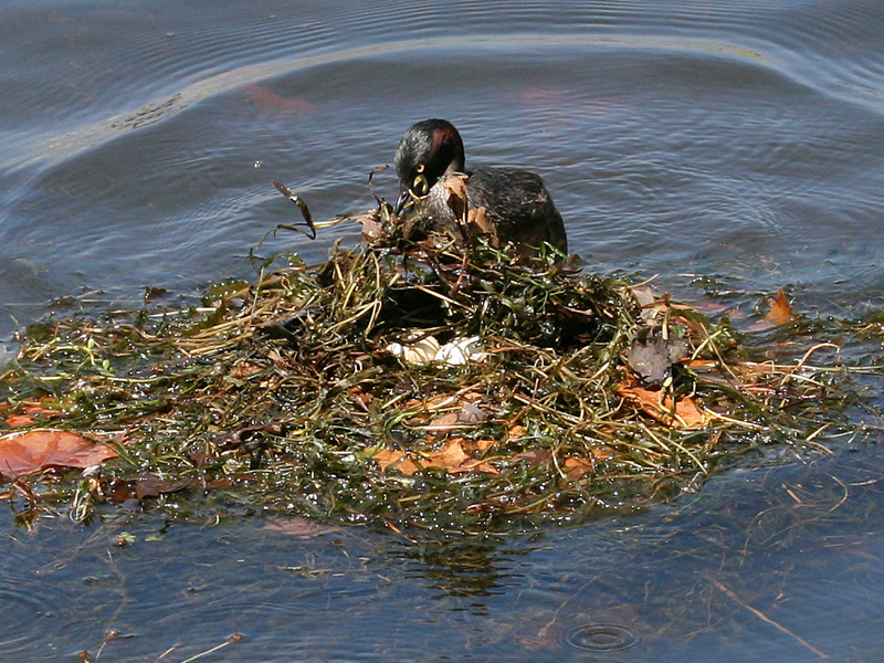 Australasian Grebe, Tachybaptus novaehollandiae, Parent covering eggs in floating nest Source: Own work, Perth, Australia Date: February 2007 Author: Keith Lightbody Permission: All uses, with attribution